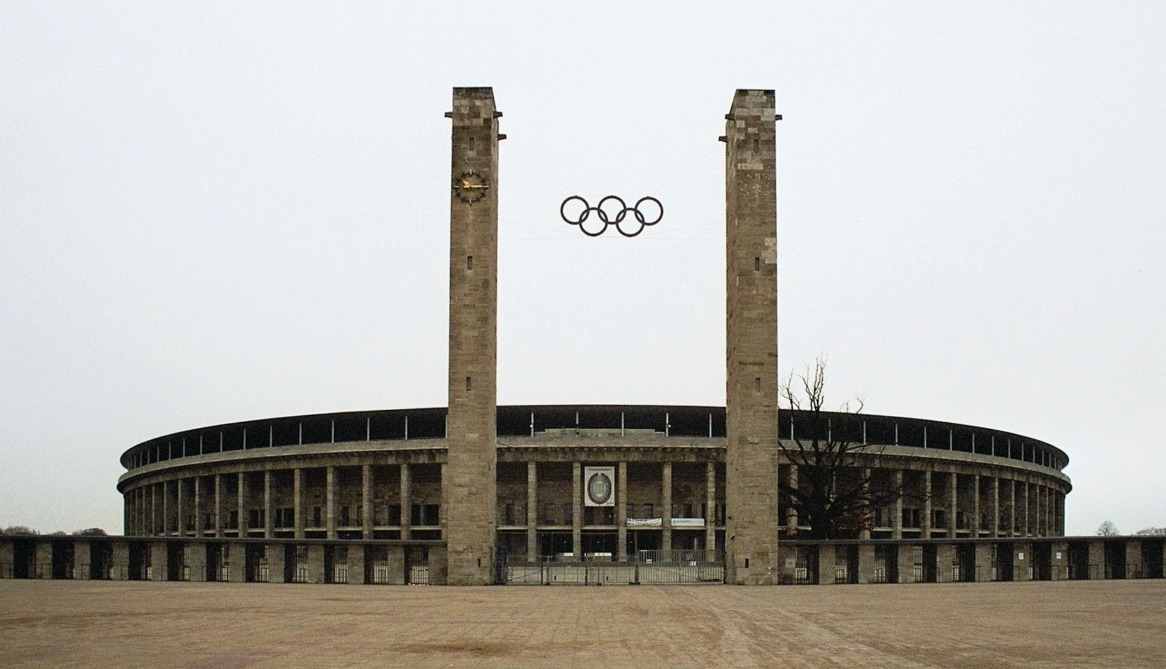 Olympic Stadium in Berlin, Germany. Main Entrance with Olympic Rings (from Summer Olympics 1936)